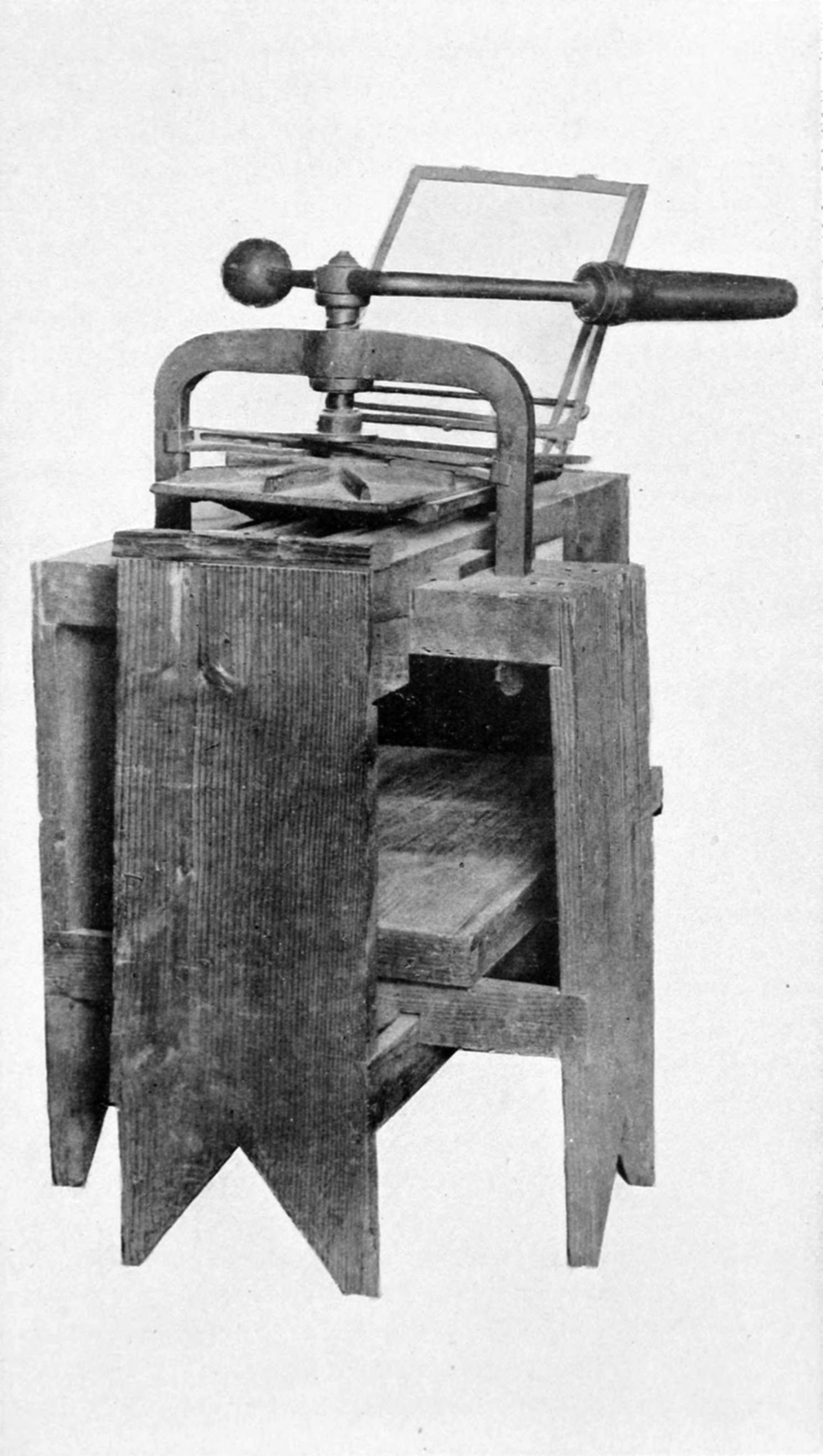 This printing press was brought to the Pacific Northwest from Honolulu, first used at the Whitman mission near present-day Walla Walla, Washington.